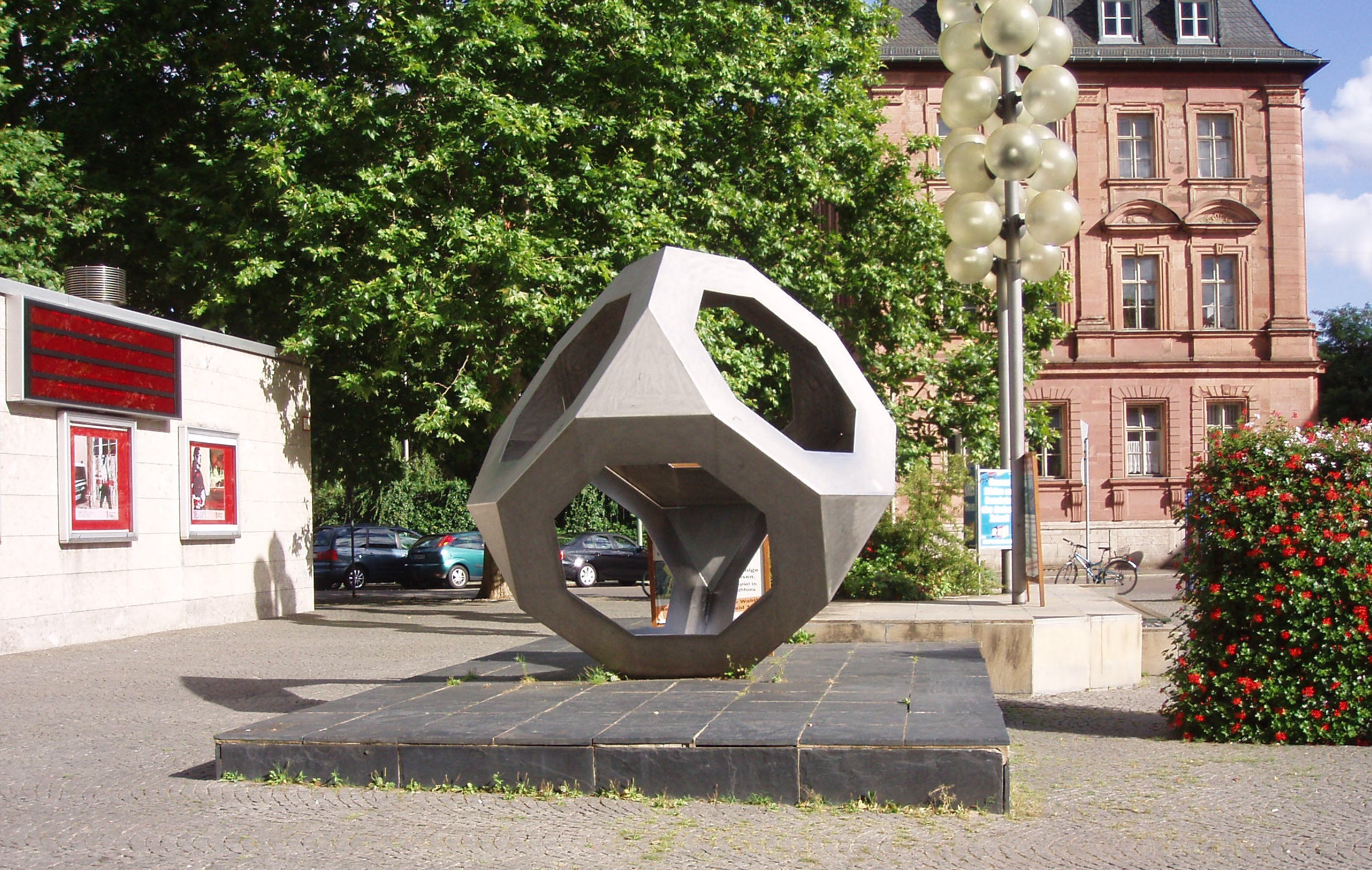 Karl-Ludwig Schmaltz, Makrokern 170 in Würzburg